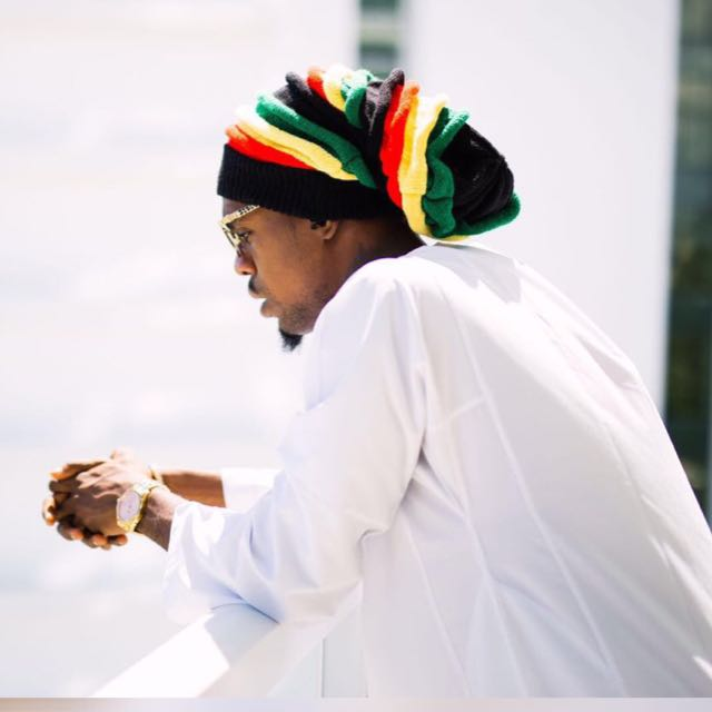 Patoranking in 2015